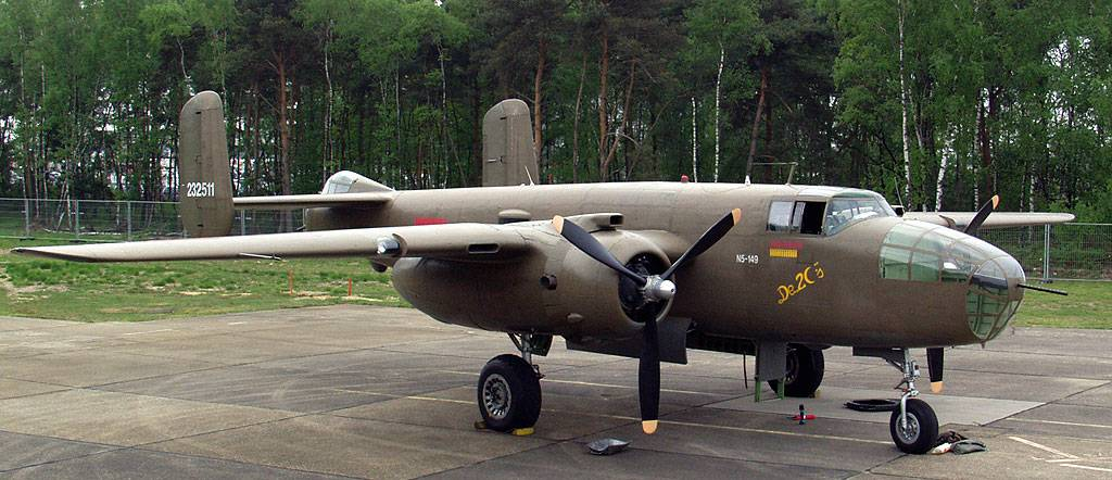 North American Aviation B-25 Mitchell (N320SQ) at Airport Niederrhein